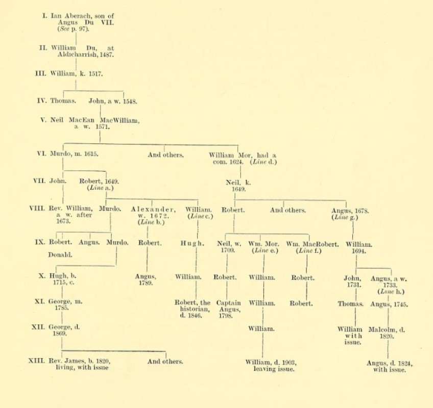 Mackay of Aberach family tree, a branch of the Scottish Clan Mackay